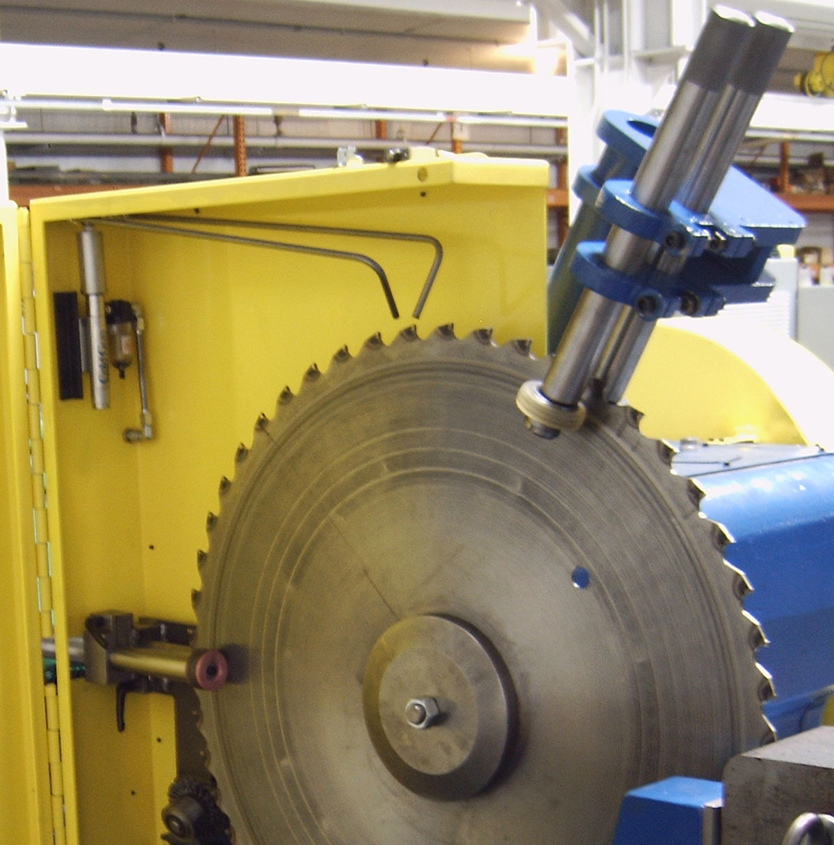 Eccentric adjustable roller stabilizers acting 180° and 90° on the blade